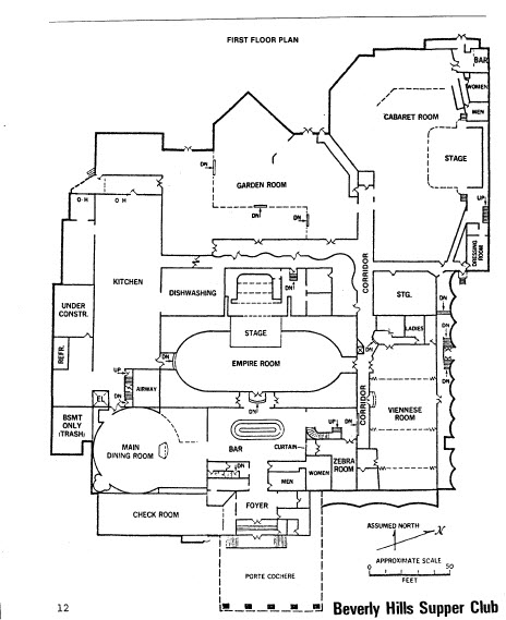 This is the floor plan of the Beverly Hills Supper Club in Southgate, Kentucky, which burned down in a fire May 28, 1977. 165 people died and more than 200 were injured as a result of the blaze